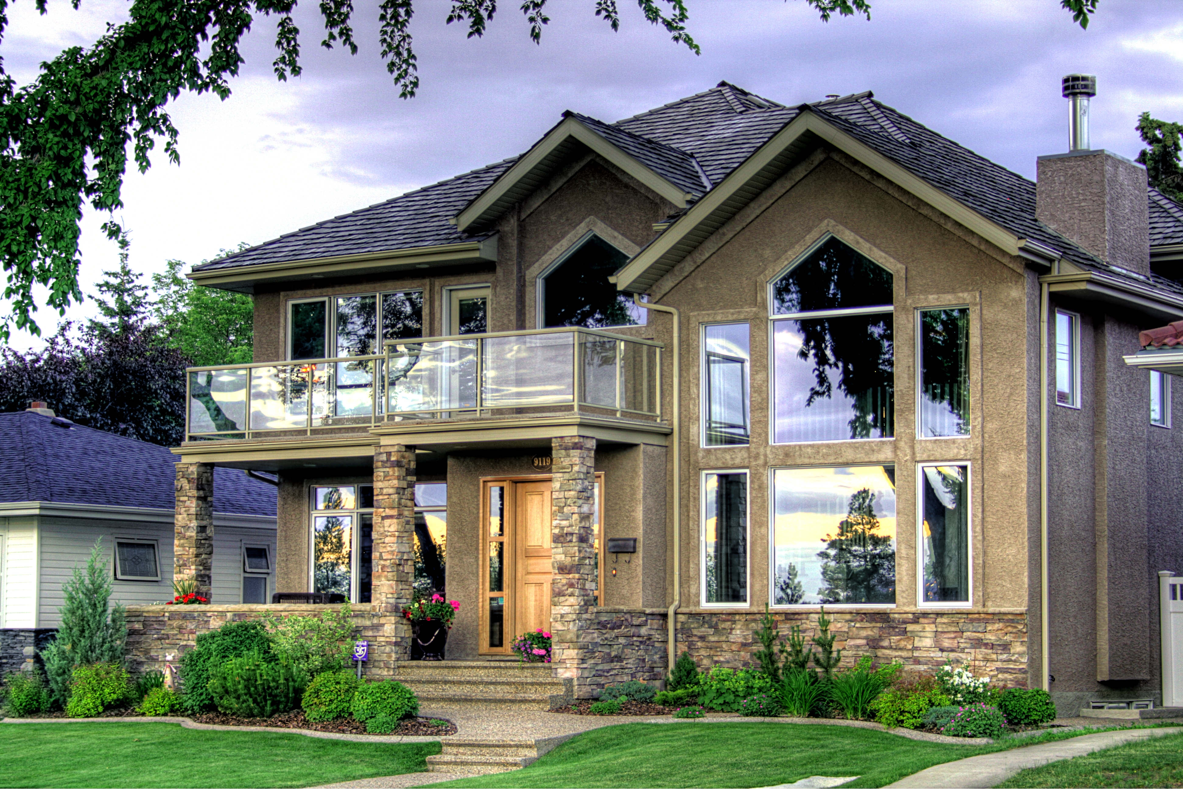 A home overlooking the North Saskatchewan River valley from Strathearn Drive in Edmonton, Alberta, Canada.